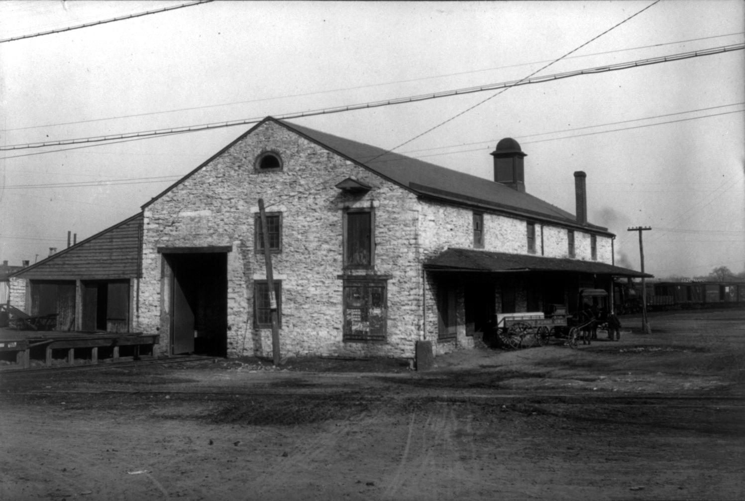 Baltimore and Ohio Railroad freight depot, S. Carroll St. and E. All Saints St., Frederick, Maryland. Opened 1831, demolished 1911.